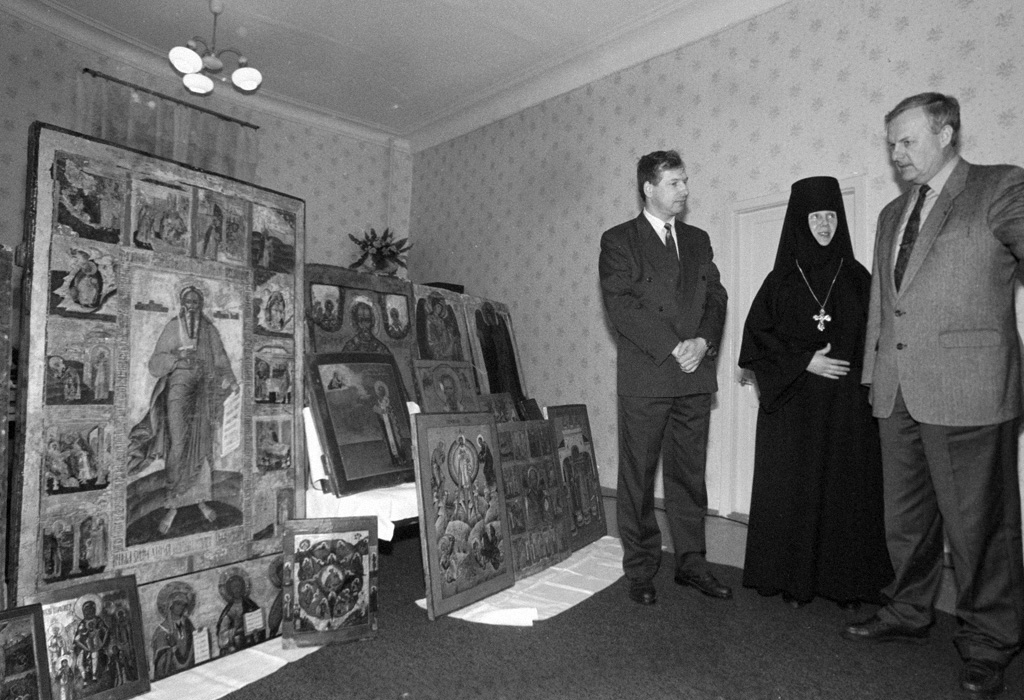 “Anatoly Sobchak and Viktor Cherkesov present icons to Mother- Superior Serafima”. St. Petersburg Mayor Anatoly Sobchak [right] and Viktor Cherkesov, director of Federal Security Service's St. Petersburg division [left], present icons confiscated from smugglers to Mother-Superior Serafima of Patriarshy Convent [center].